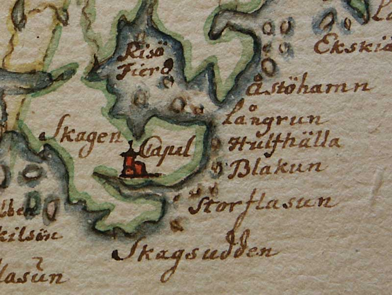 Part of a map over Ångermanland from 1714, with the chapel of Skag.